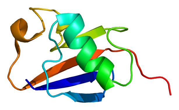 Structure of the PARK2 protein. Based on PyMOL rendering of PDB 1iyf.